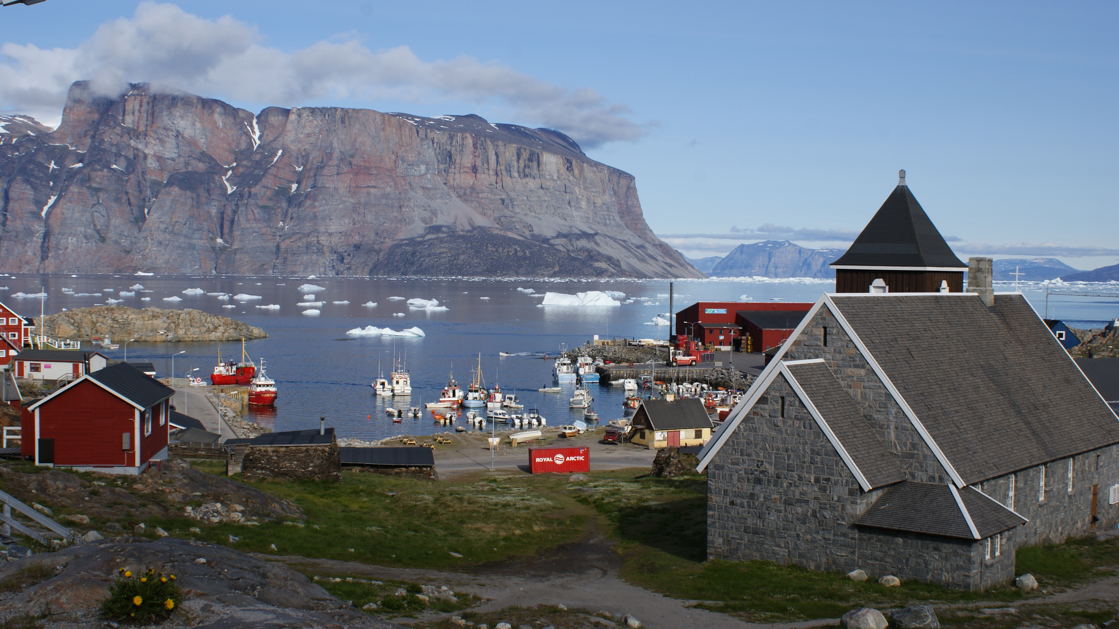 Uummannaq, a major settlement in Qaasuitsup, northwestern Greenland. Vista with Salliaruseq island in the background, and Uummannaq Church and port in the foreground.